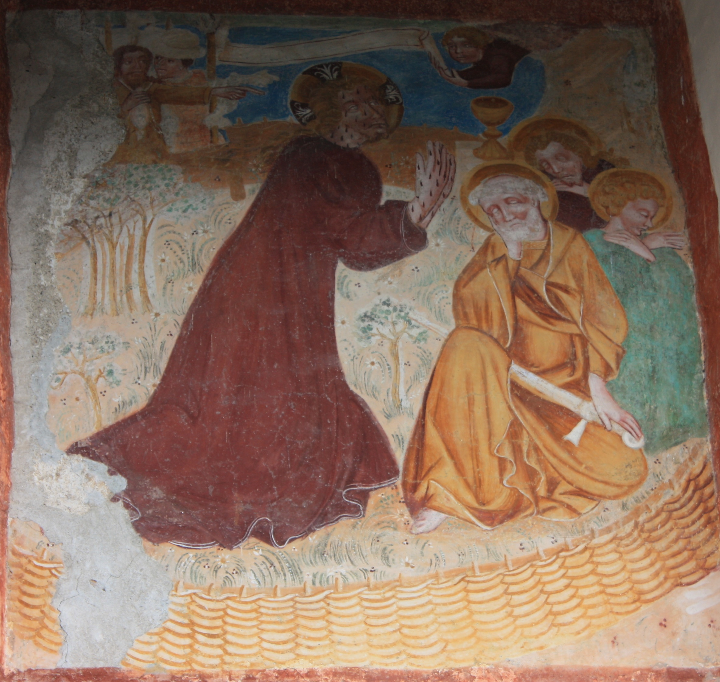 Parish church: Christ on the Mount of Olives Locality: Berg im Drautal Community:Berg im Drautal